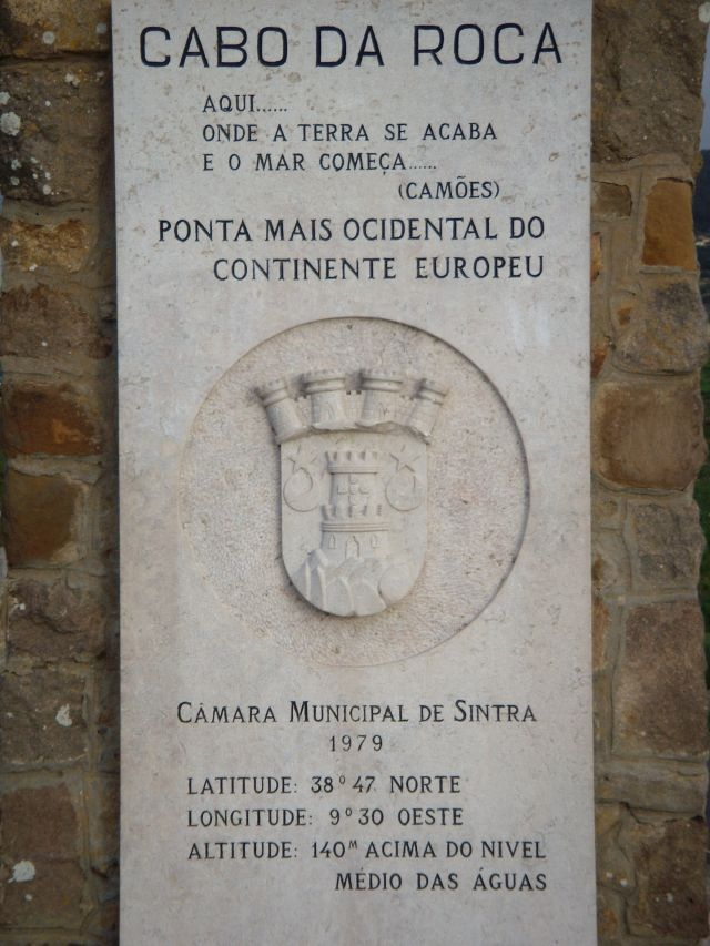 Picture of the plaque on the monument of Cabo da Roca (Cape Roca). Translation:Here...Where the land endsAnd the sea starts... (Camões)The most western point of the European ContinentMunicipal Chamber of Sintra 197938°47′N 9°30′W / 38.783°N 9.5°WAltitude: 140 metres (meters) above mean sea level